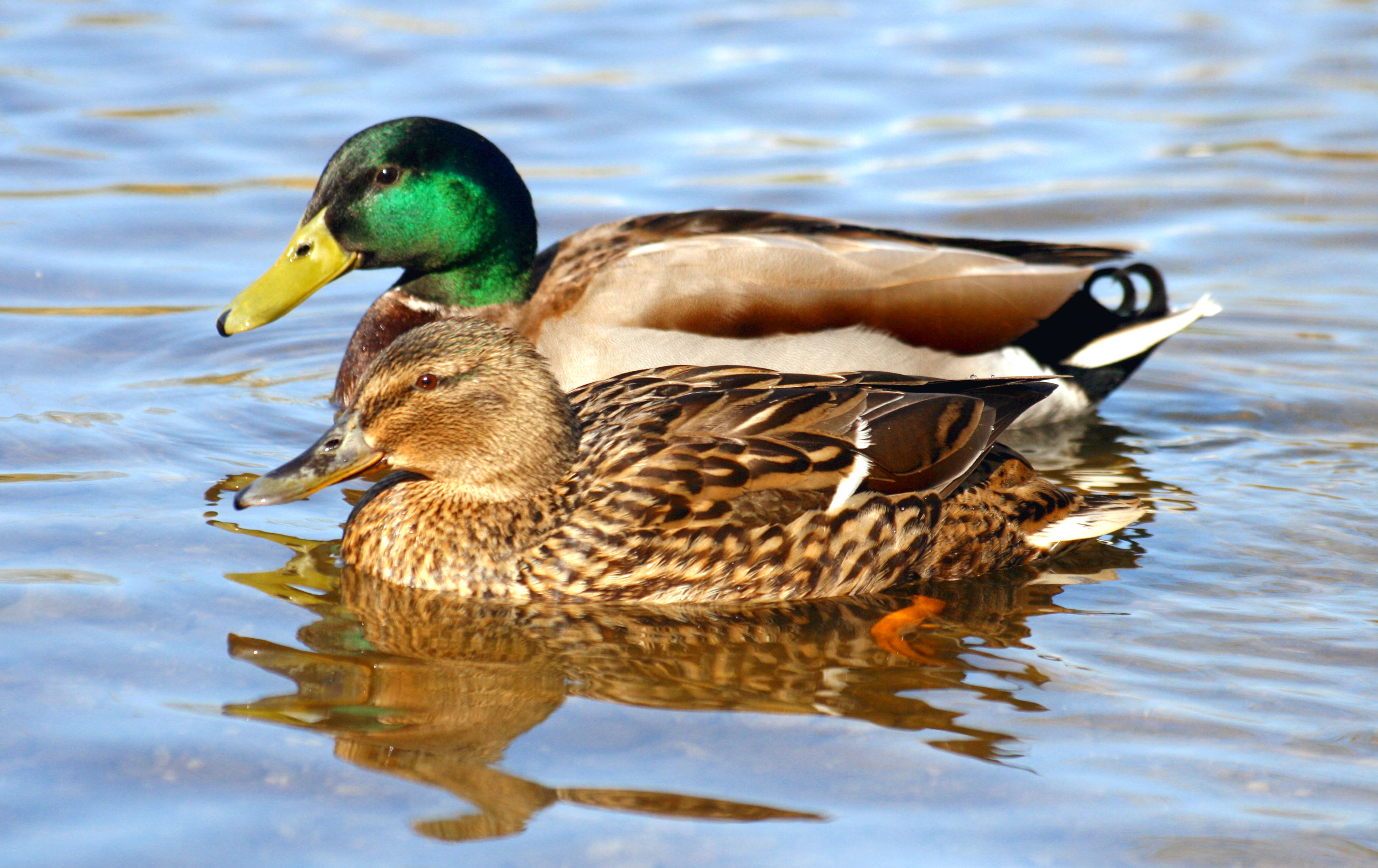 Ducks - Dedham, Essex, England - Sunday April Thirteenth 2008.